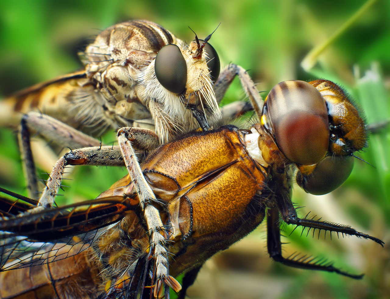 Witnessing this female Triorla interrupta take this young male Common Whitetail right out of the air was an amazing sight - it simply pulled him right out of the air, and after a minute or so of bouncing and buzzing about in the grass, she was sucking him dry. Dragonflies are certainly vicious predators, but they're are no match for these beautiful robber flies. From what I've read, these Triorla robbers are absolute beasts that regularly take down prey much larger than themselves - grasshoppers, katydids, dragonflies, and of course - other robber flies. Maybe I'm exaggerating, but I've seen darker hairier robber flies around this same spot at least twice the size of this female T. interrupta! I never managed to get a good photo of the one specimen I encountered last summer, but got a good enough look to be certain it was a robber. As it would transfer from perch to perch, it would swoop down and buzz right by my head, coming within inches of my face - I've never witnessed anything like that. Maybe next summer I can get some shots of one of those monsters in action! I took this photo last July - and maybe my memory is awful or I was just too excited about the scene, but I really can't remember exactly how I took the shot above - I think I was just using my old Asahi Pentax 50mm f/1.4 prime reversed directly to the body... regardless - it's a manual focus stack of 3 shots.